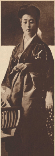 이방자 李方子 Bangja, Crown Princess Euimin of Korea, Nashimotonomiya Masako. Original caption: "Princess Nashi-no-Moto, one of the most beautiful of the imperial princesses of Tokio, who is betrothed to Prince Li of Korea"